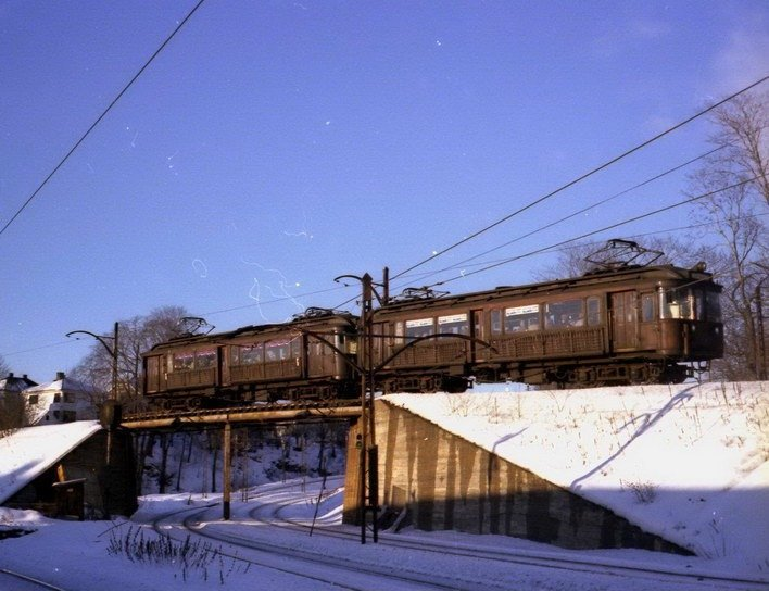 Røa Line crossing over the Sognsvann Line of the Oslo Metro.